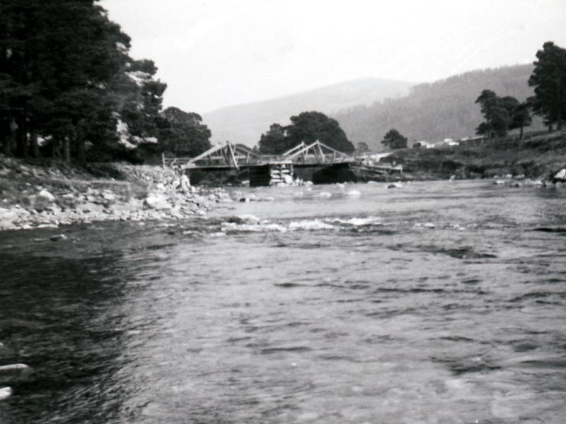 The old wooden bridge at the Canadian Campsite on Mar Lodge Estate